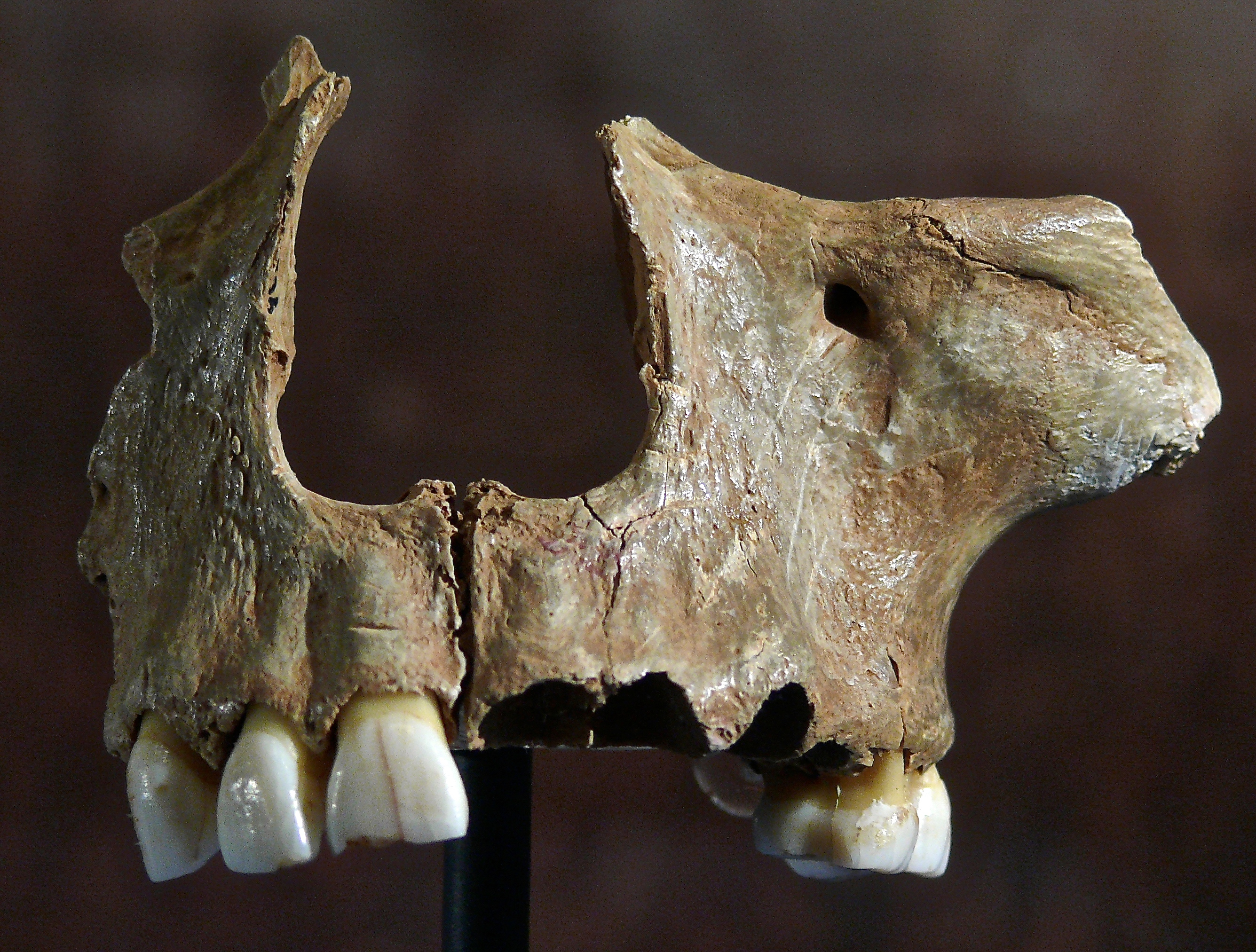 Gough's Cave in Somerset (UK), 14,7 KYA. Facial Remains showing cutting-marks, where the meat has been removed, a clear sign of cannibalism.